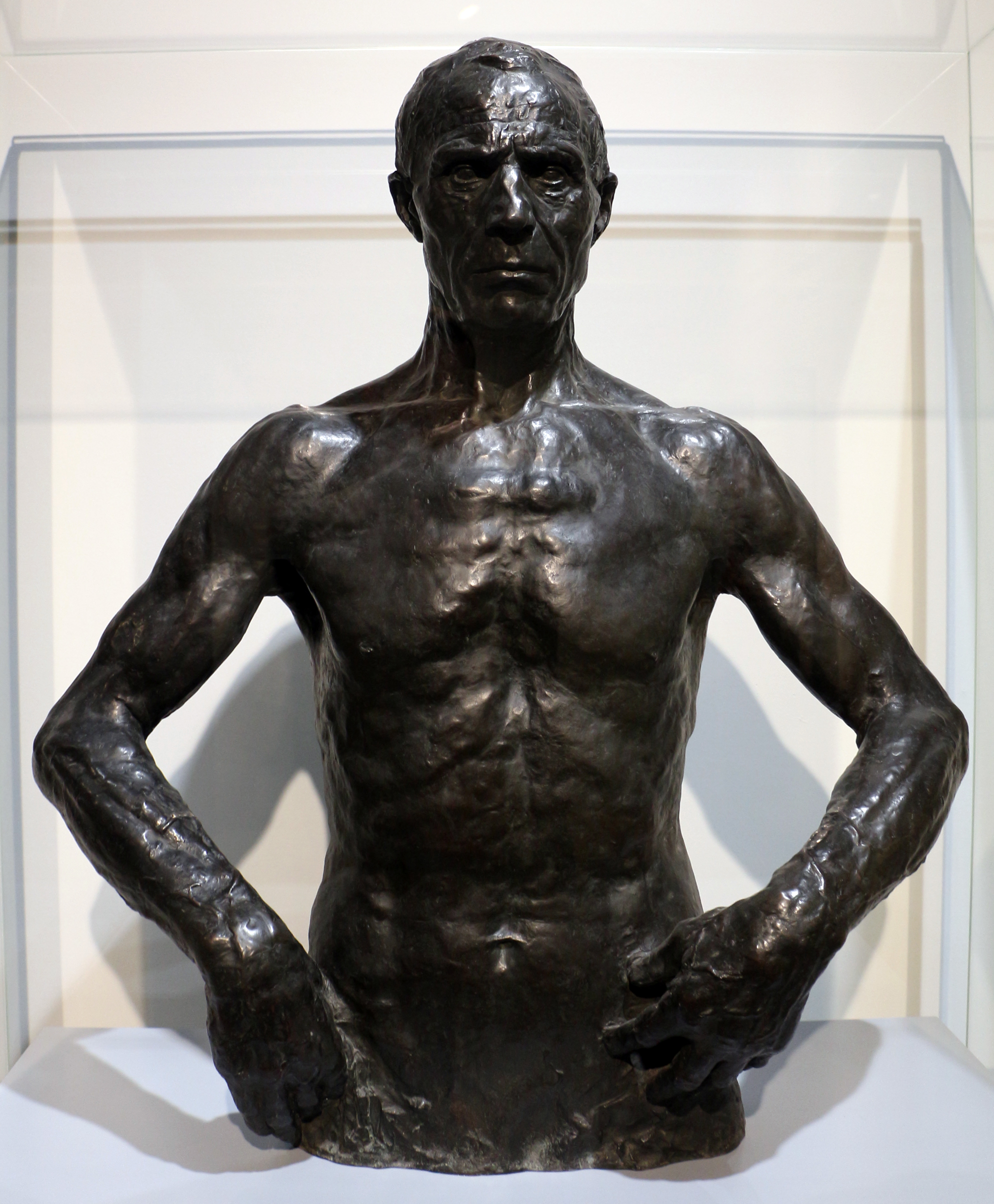 George Minne, Male Torso, 1910, bronze, Bruxelles, Fin de Siècle Museum.